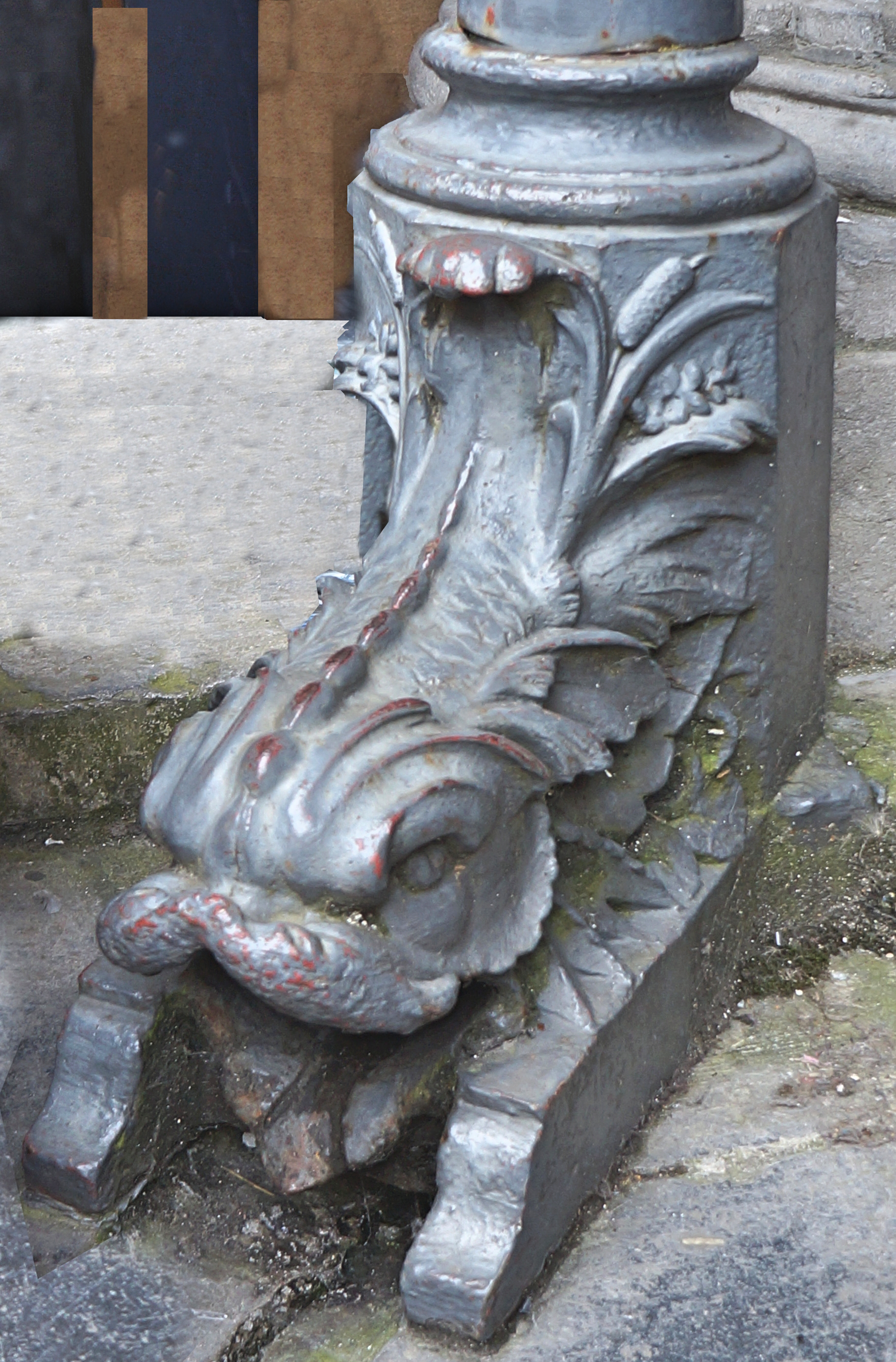 Drain pipes in the Vieille Bourse Lille Nord .